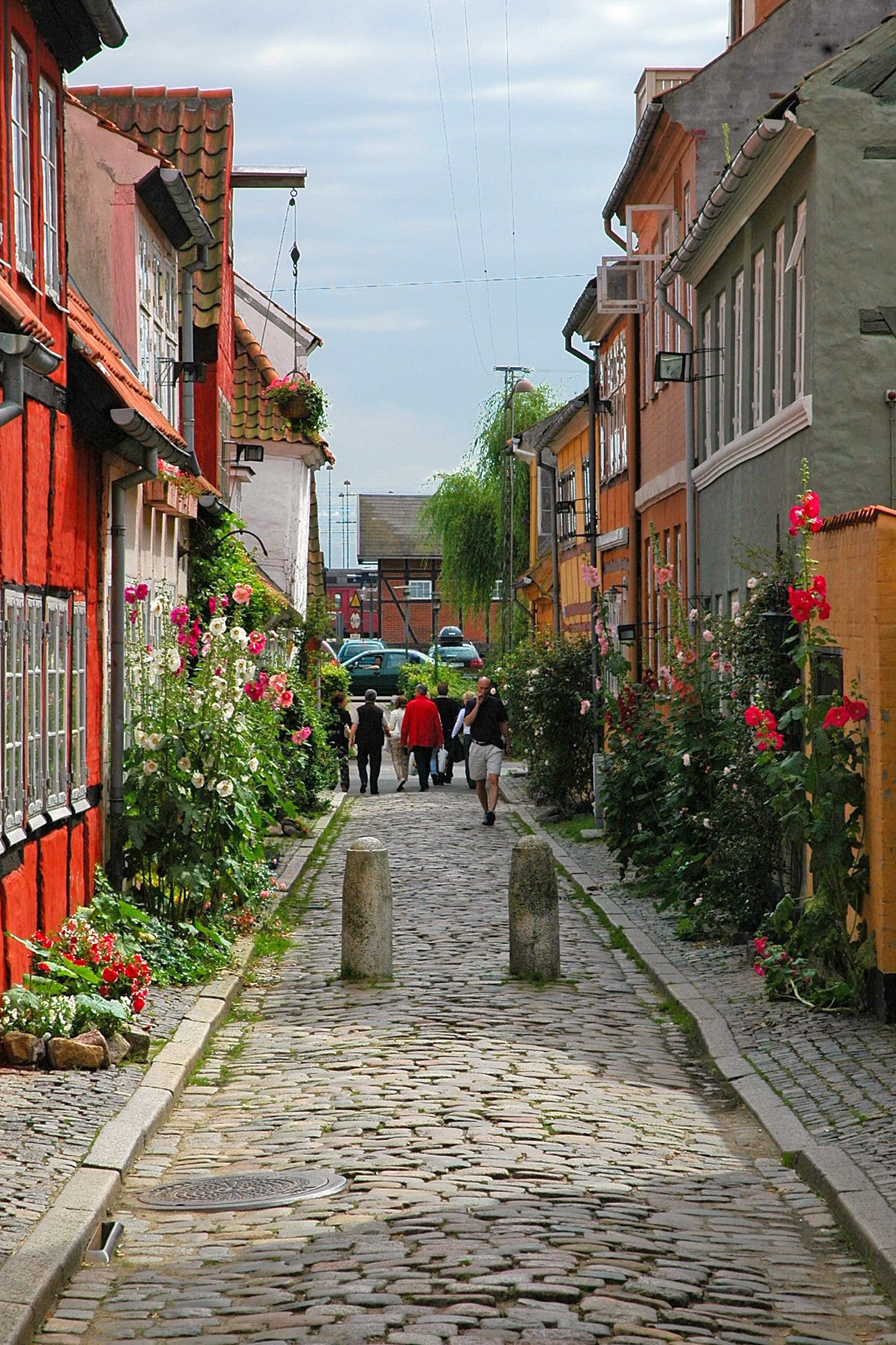 A street in Helsingør, Denmark